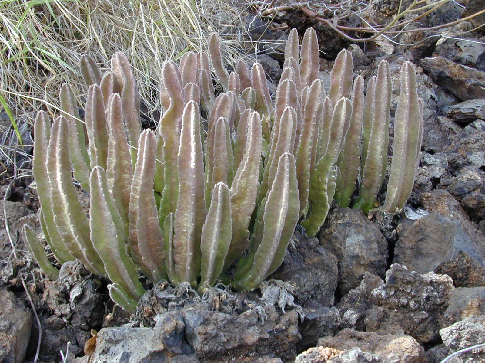 Stapelia gigantea (habit). Location: Maui, Wailea 670